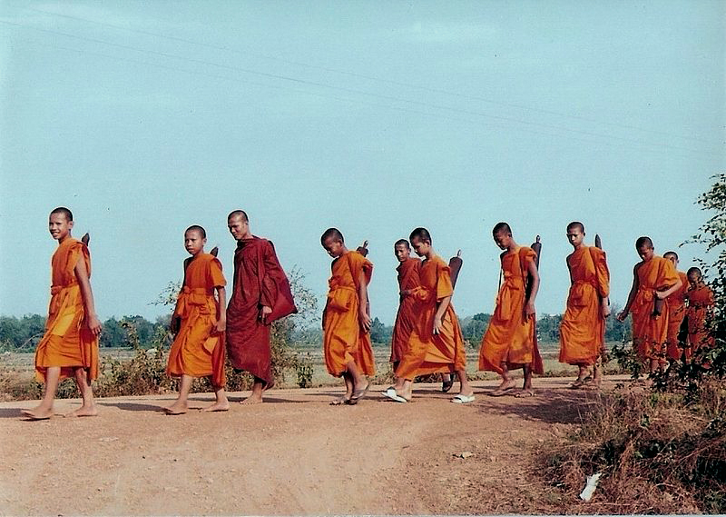 Thai monk the is pilgrimaging (ธุดงค์) follows ancient tradition for practices the dharma and help villagersLocation: Wat Khung Taphao Ban Khung Taphao, Khung Taphao subdistrict, Mueang Uttaradit, Uttaradit Province, Thailand.